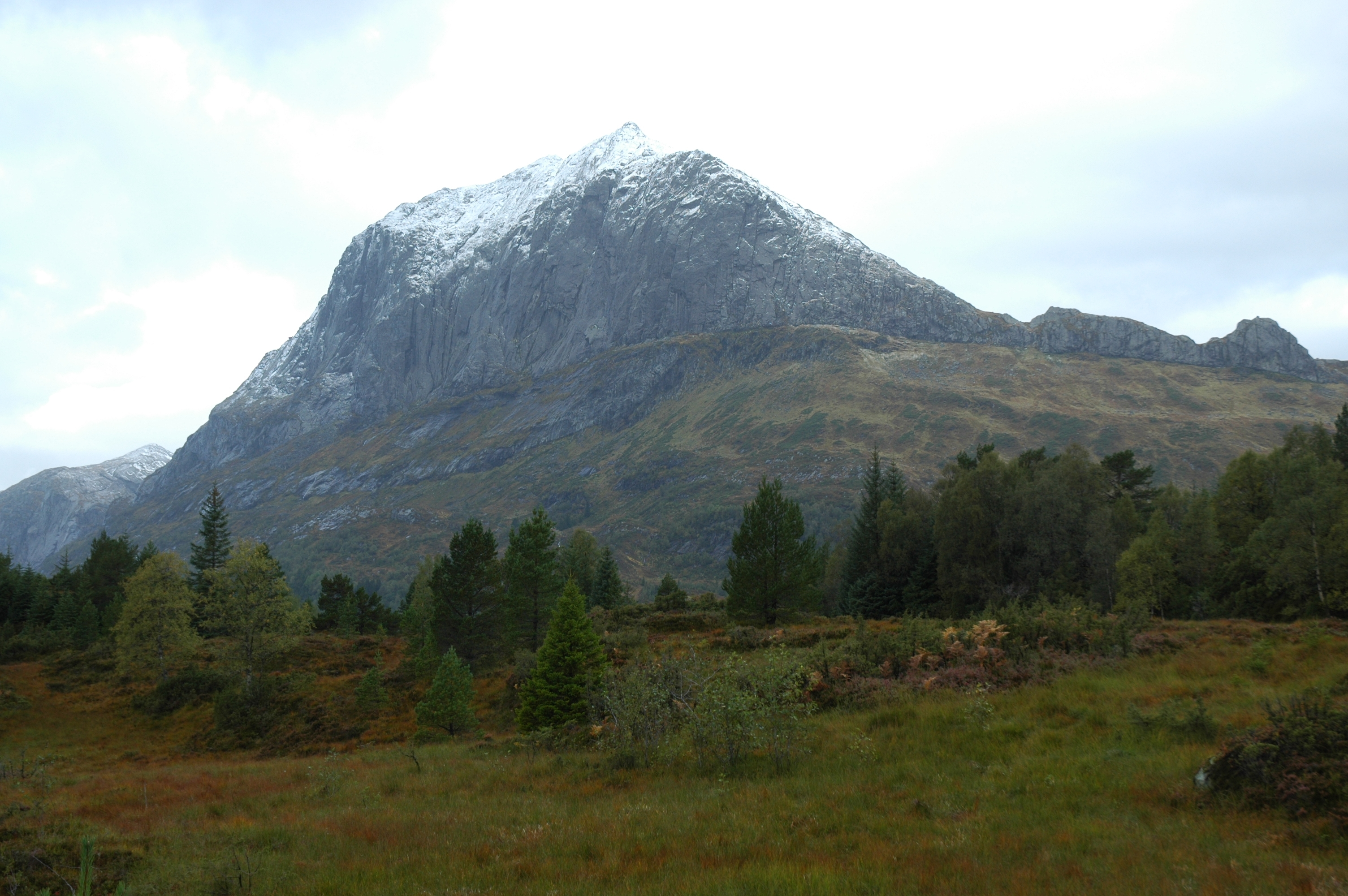 Storehesten (meaning big horse), also known as Kvamshesten, is a mountain close to Bygstad in Gaular municipality, Norway.